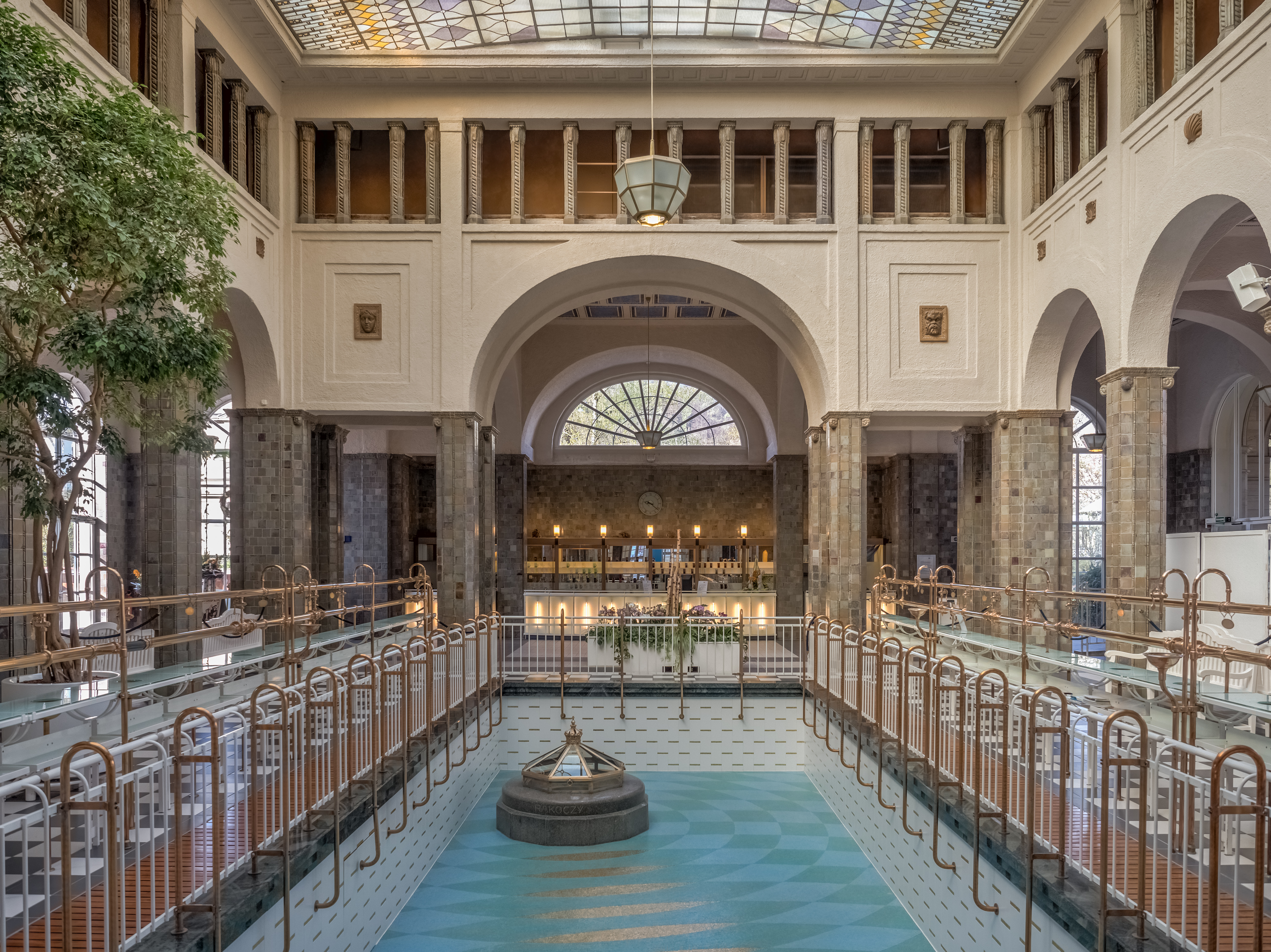 Well house in Bad Kissingen, Bavaria